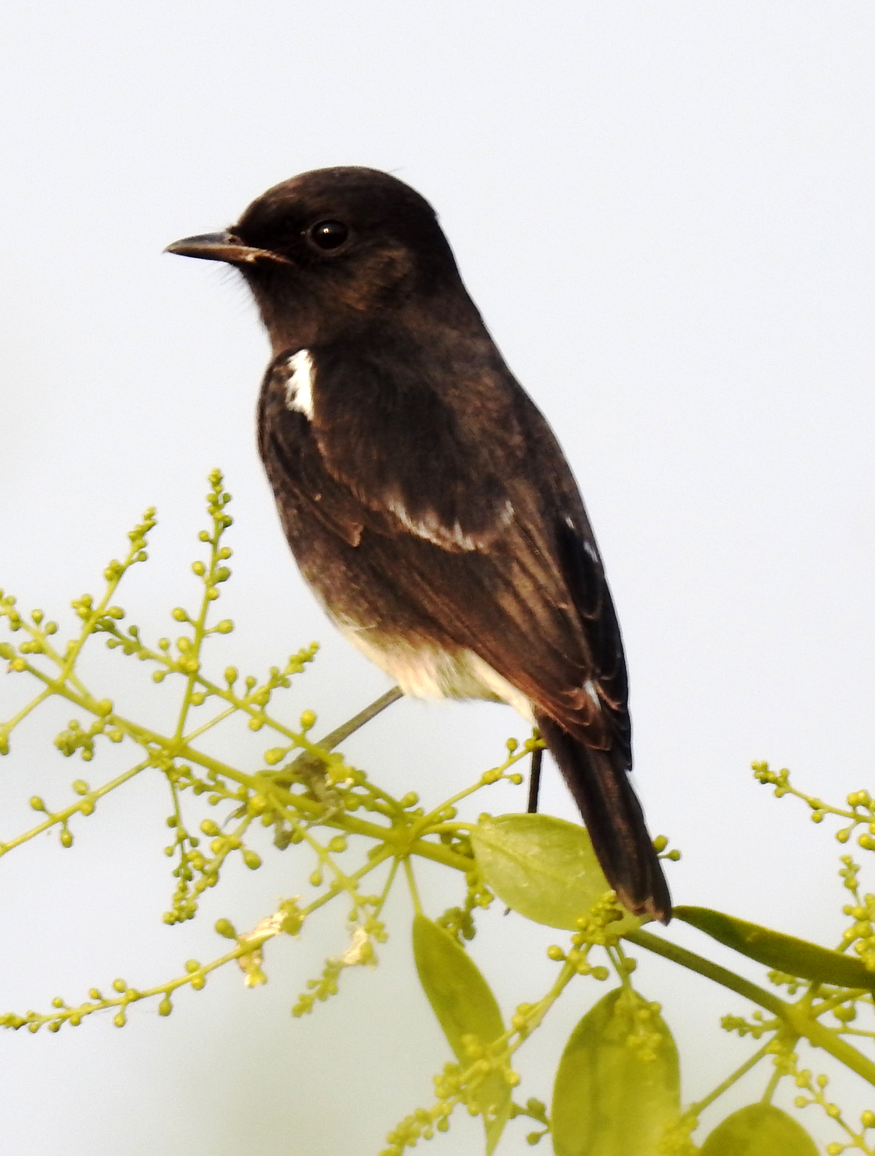 Photo taken at Keoladeo National Park or Bharatpur Bird Sanctuary, Rajasthan